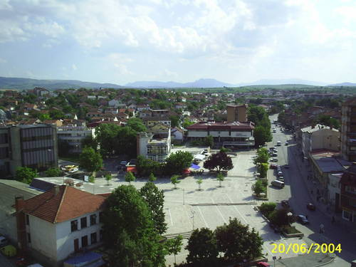 Negotino, a city in Republic of Macedonia